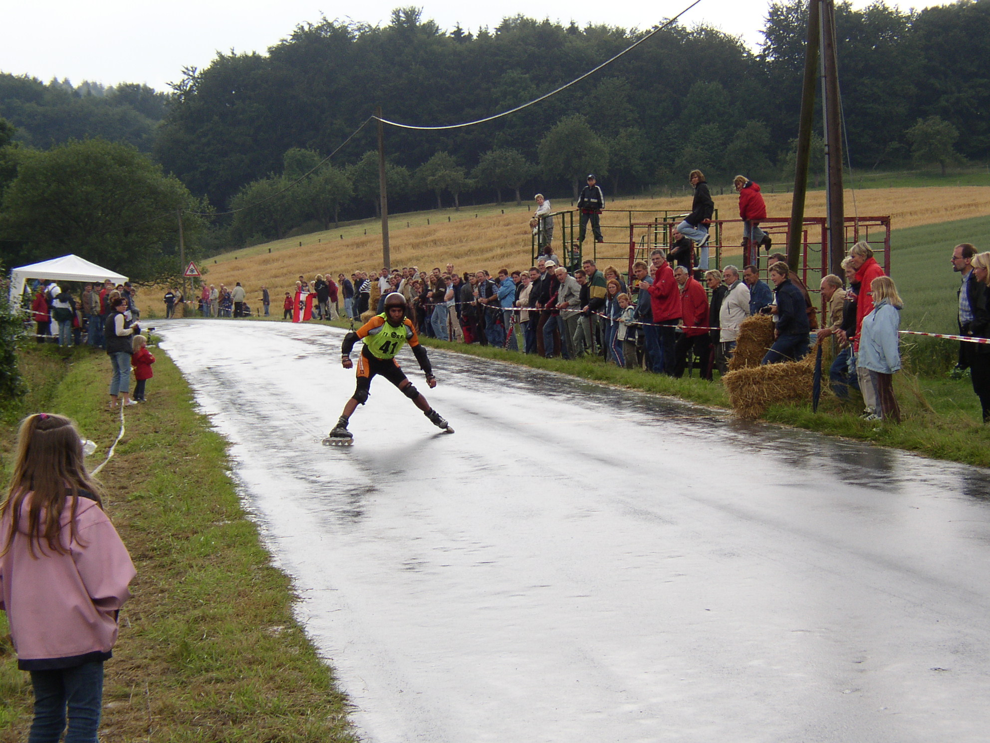 Inline-Skate Downhill World Championships